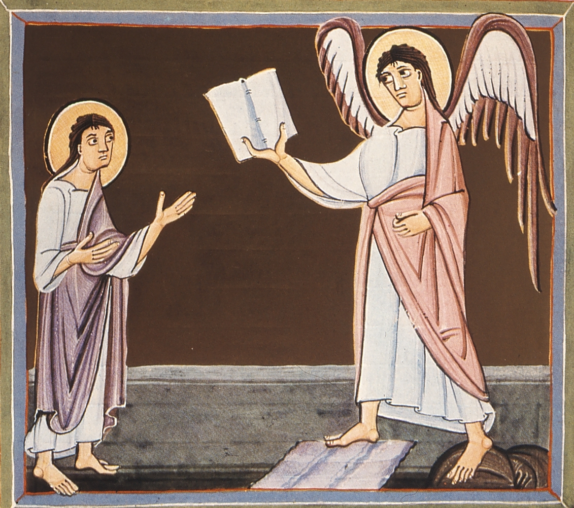 The Angel with the little book Apk 10, 1-4